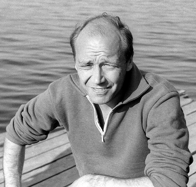 Swedish football player Gunnar Gren posing on a dock at the FIFA World Cup. Sweden, June 1958.